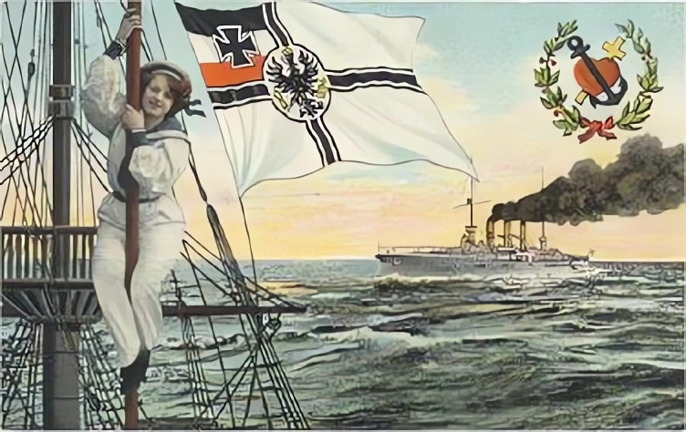 Contemporary German Postcard with the Warflag of the German Empire used 1871-1892